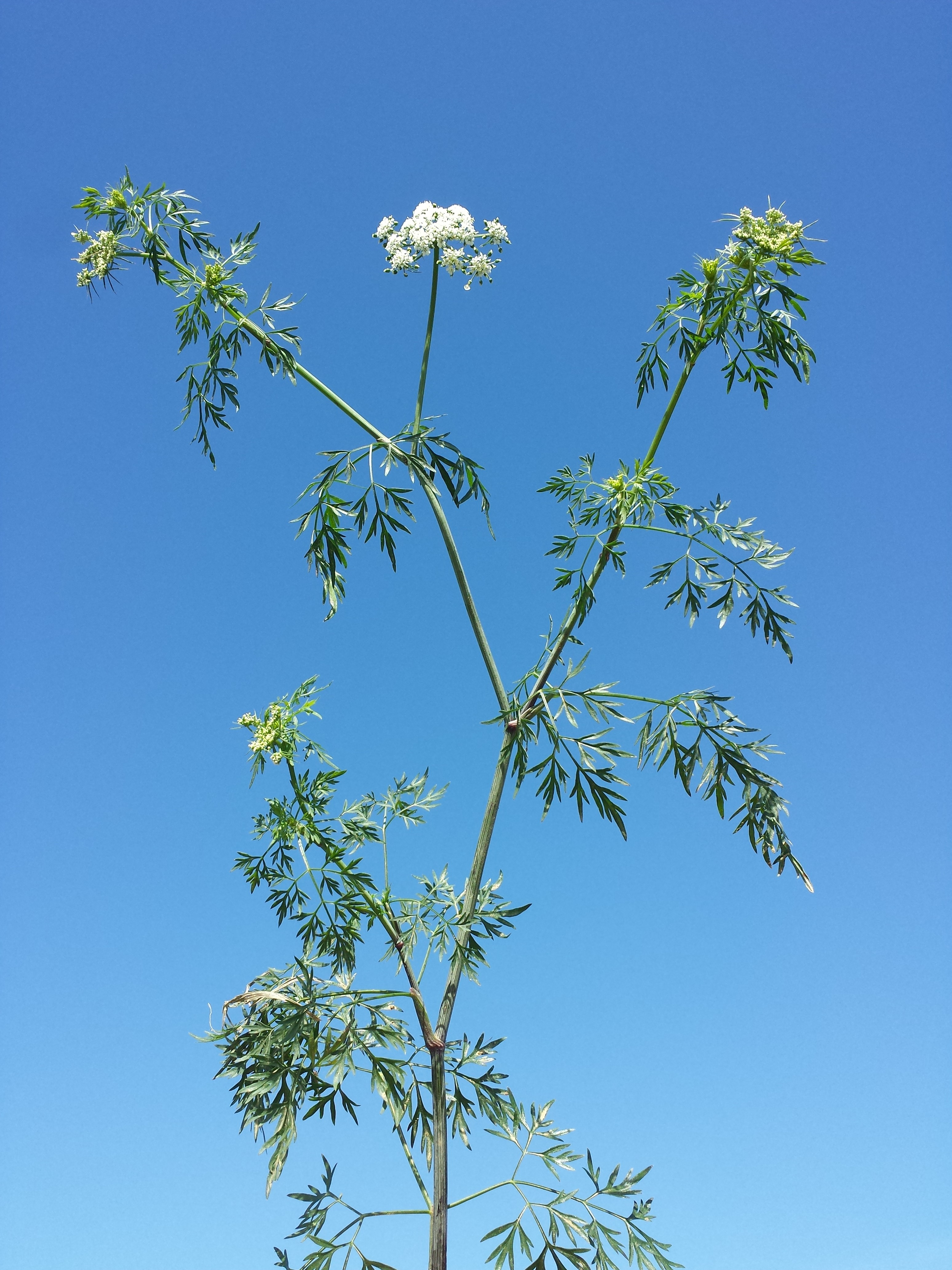 Habitus Taxonym: Aethusa cynapium subsp. cynapium ss Fischer et al. EfÖLS 2008 ISBN 978-3-85474-187-9 Location: near Pankratzberg next to Breitenwaida, municipality Hollabrunn, district Hollabrunn, Lower Austria - ca. 300 m ü. A. Habitat: field